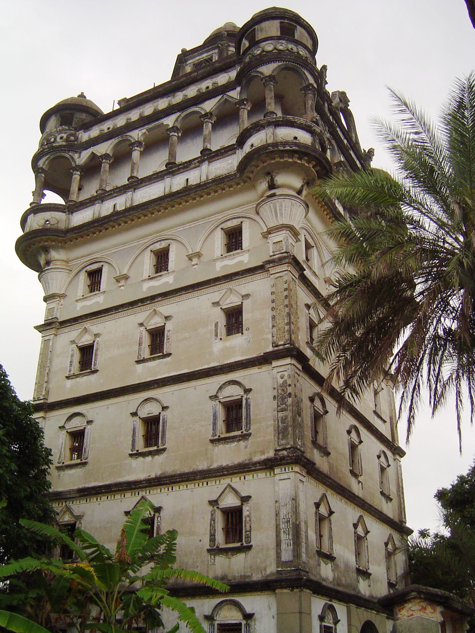 Rui Shi Tower